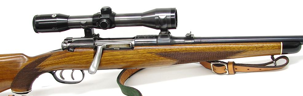 Austrian Mannlicher Schönauer Mod. GK bolt action hunting rifle. Caliber 7x64.